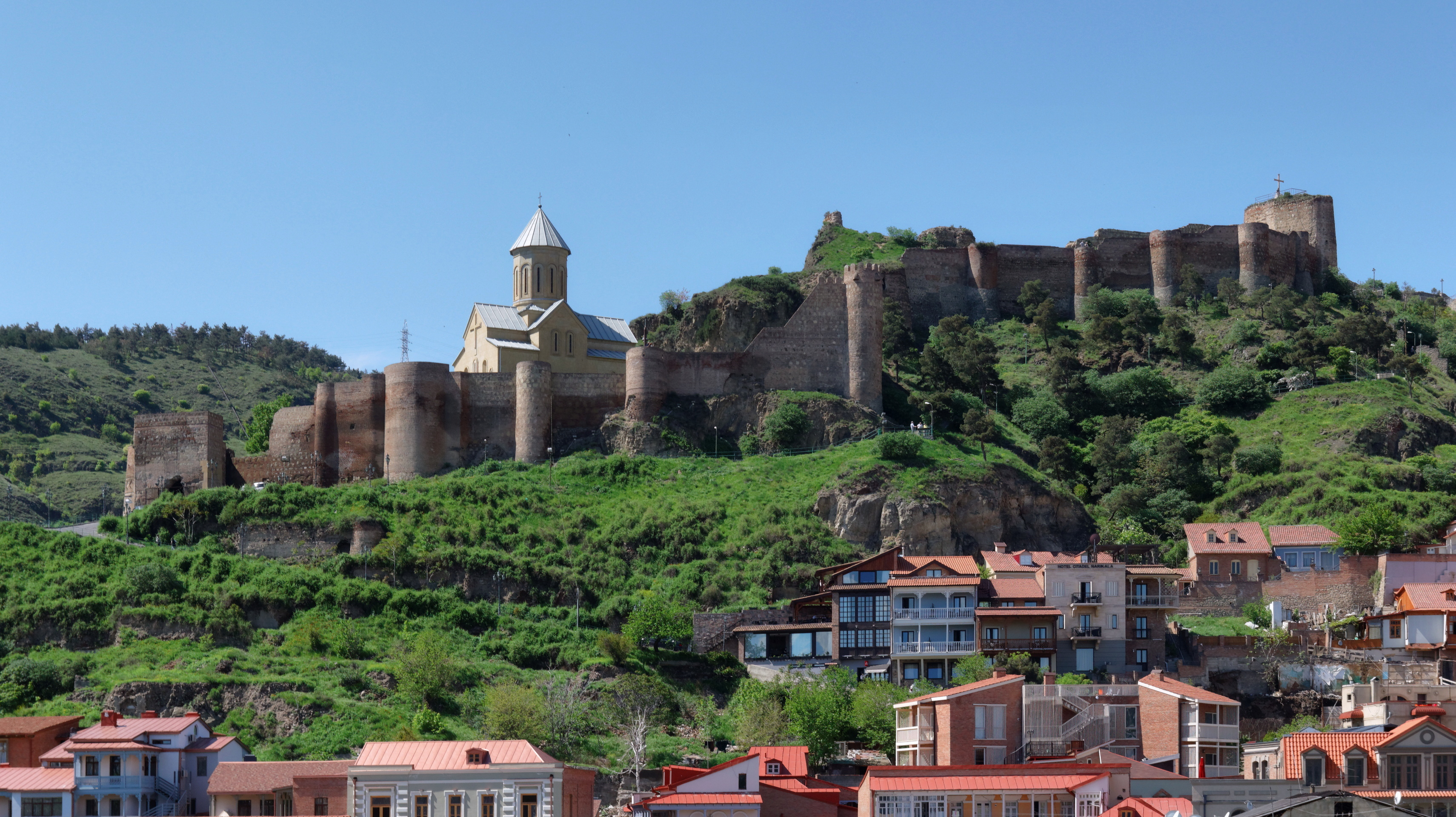 Tbilisi